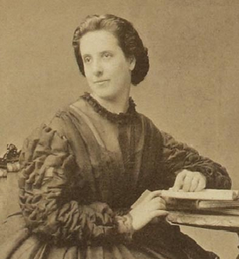 Caroline Barbot c1865-small